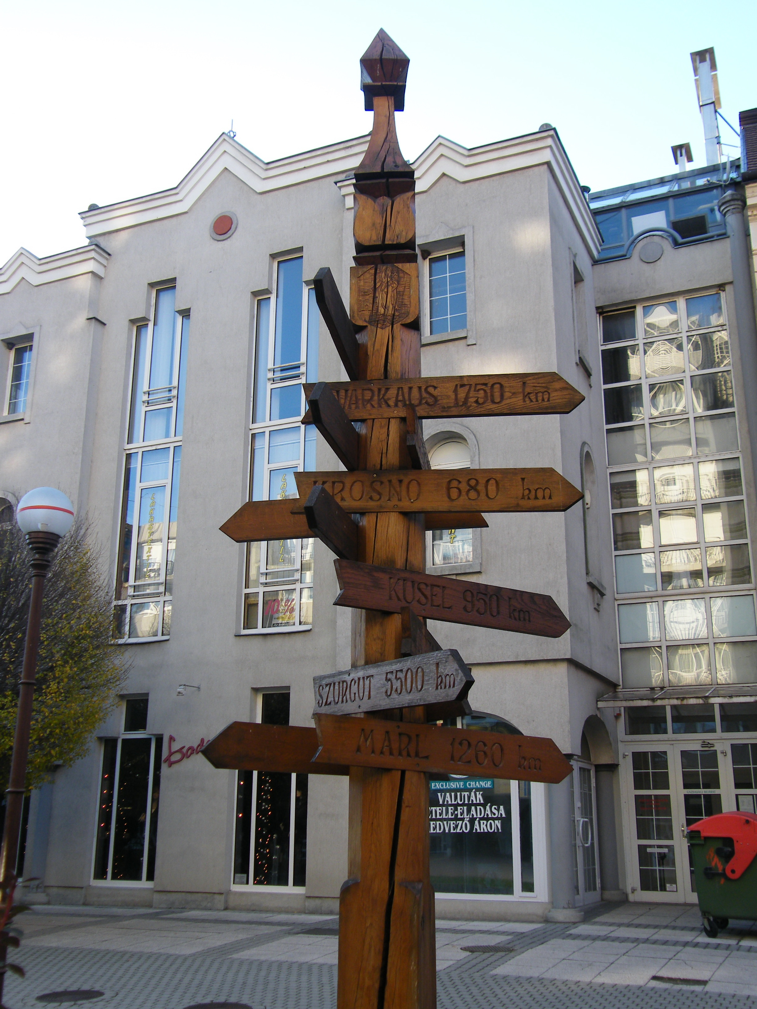 Sign that shows sister cities of Zalaegerszeg, Európa Square